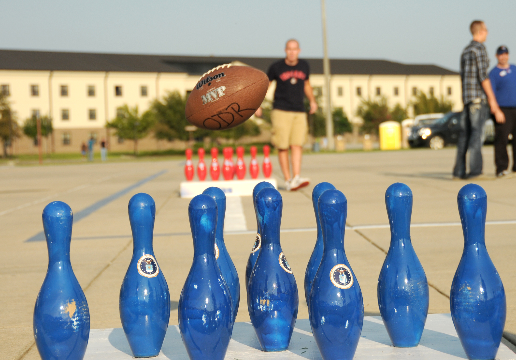 Second Lt. Alan Geason, 333rd Training Squadron, plays a game of football bowling on the parade field at the Air Force 64th birthday party.